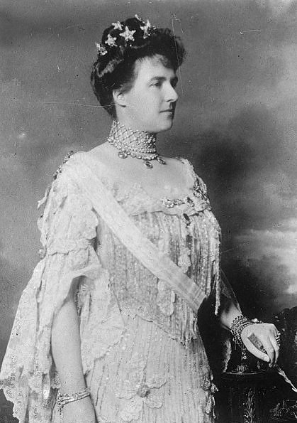 Amélia de Orleães (or Amélie d'Orléans), queen consort of Portugal.